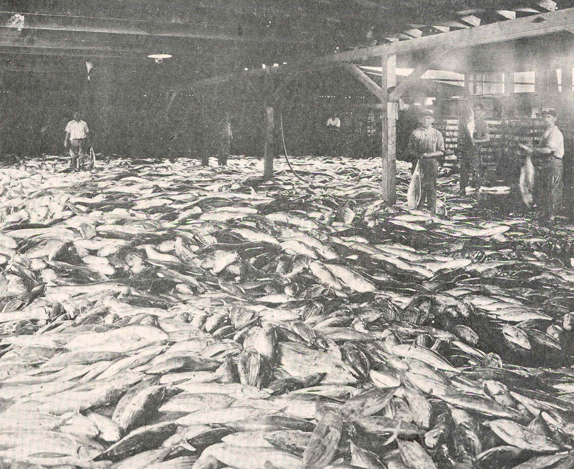 One Day's Catch of Tuna and Similar Fish at the Cannery of the International Packing Corporation at San Diego, Cal . Subject: International Packing Corporation (San Diego, California), Tuna fisheries, Bycatches (Fisheries) Tag: Commercial Fisheries